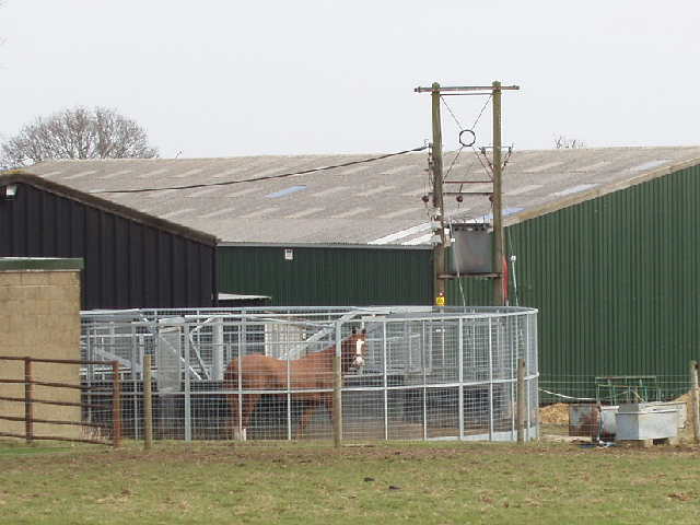 Horse exercise machine at Crossoaks Farm riding stables. Part of this large farm is a riding stables. The machine was exercising four horses walking round a circular runway.